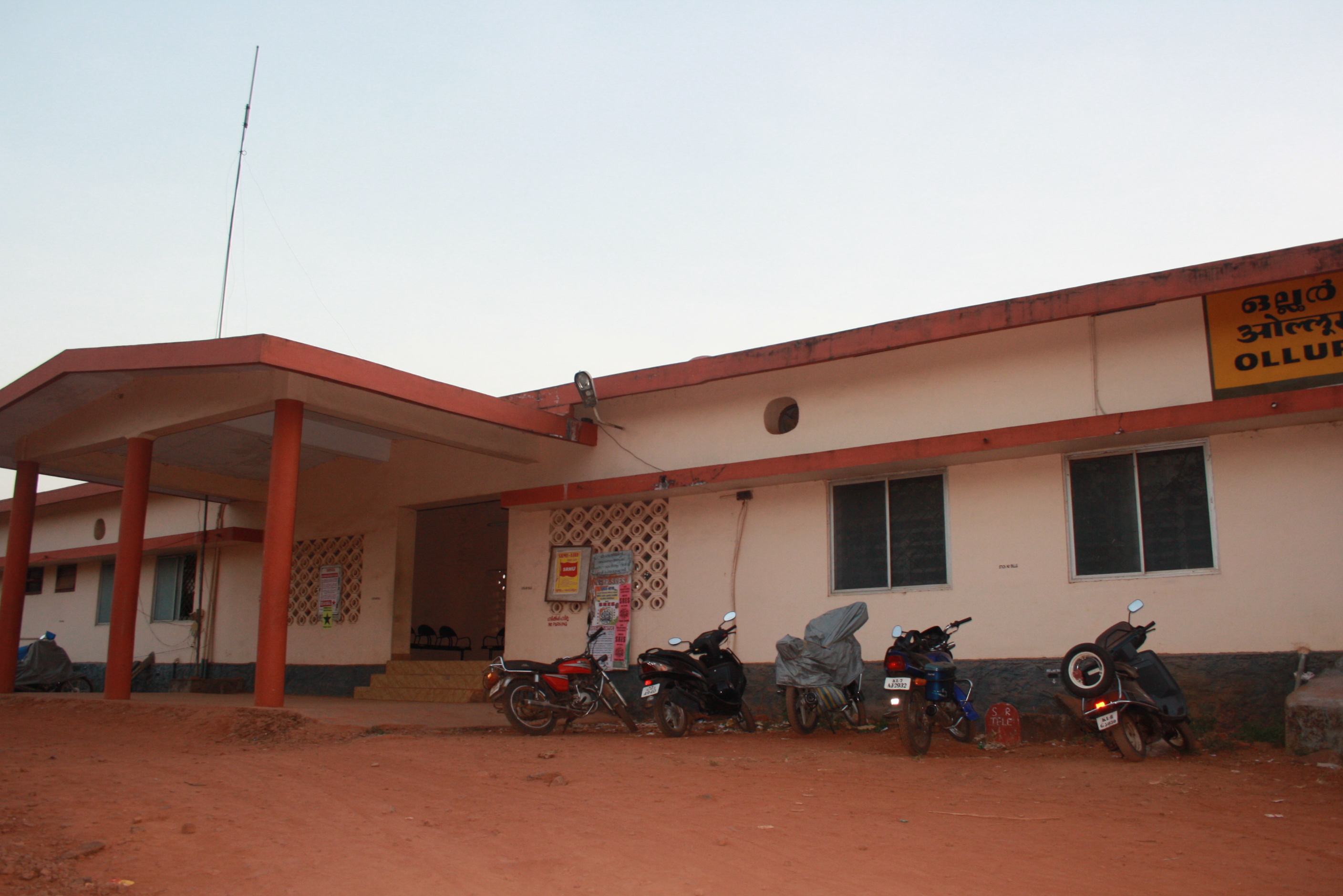 Entrance of Ollur Railway Station